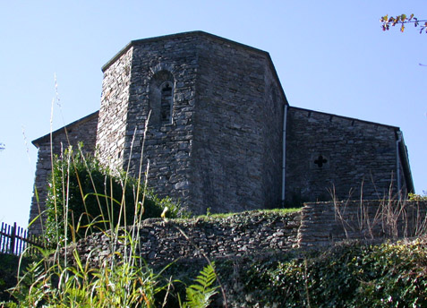 Church of St-Martin-de-Corconac